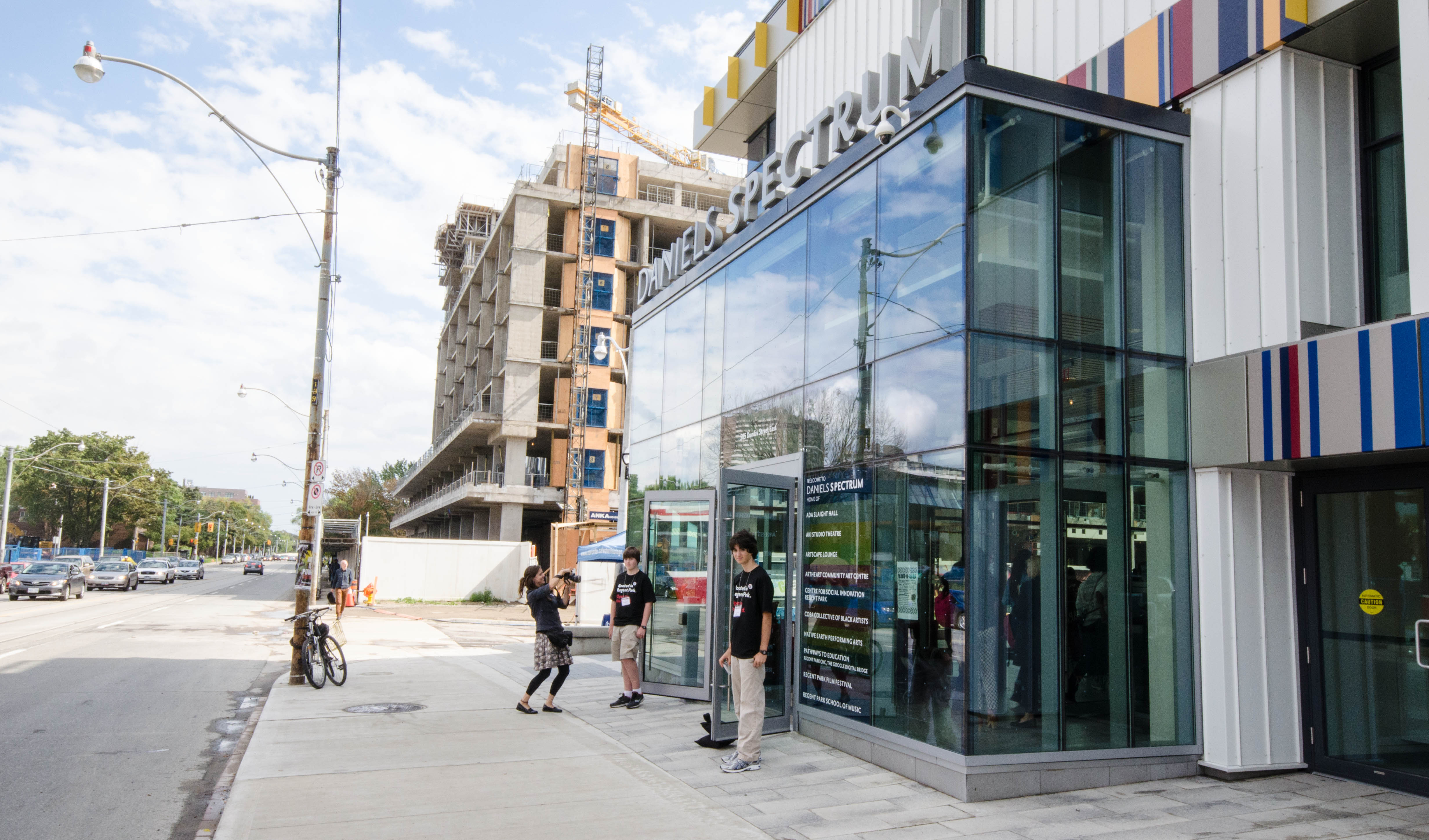 Daniels Spectrum, a new 5600 sq. m. (60,000 sq. ft.) arts and culture centre constructed as part of the revitalization of the Regent Park neighbourhood in Toronto, Ontario, Canada.